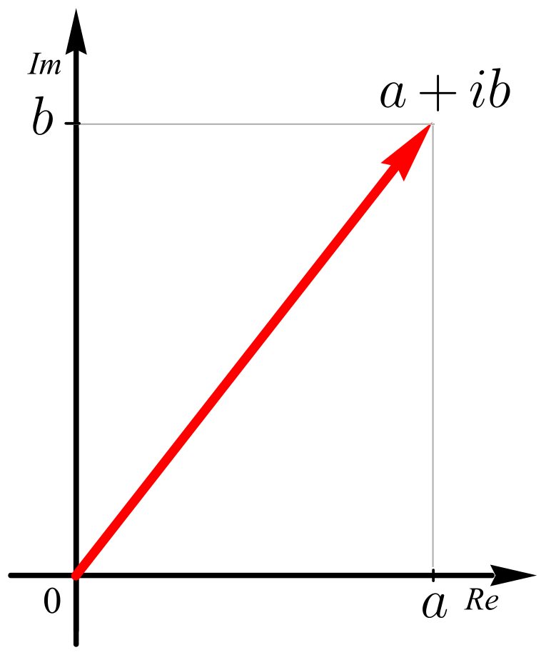 The Argand diagram